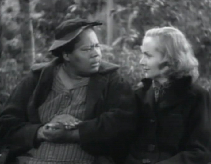 Screenshot of Louise Beavers and Carole Lombard from the film Made for Each Other